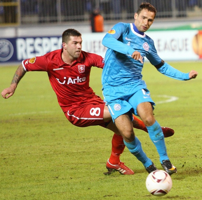 Theo Janssen